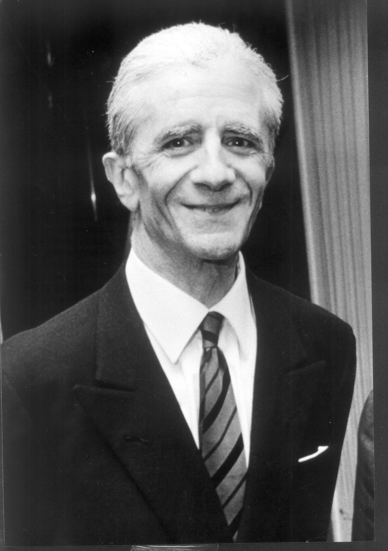 Emilio Ceretti